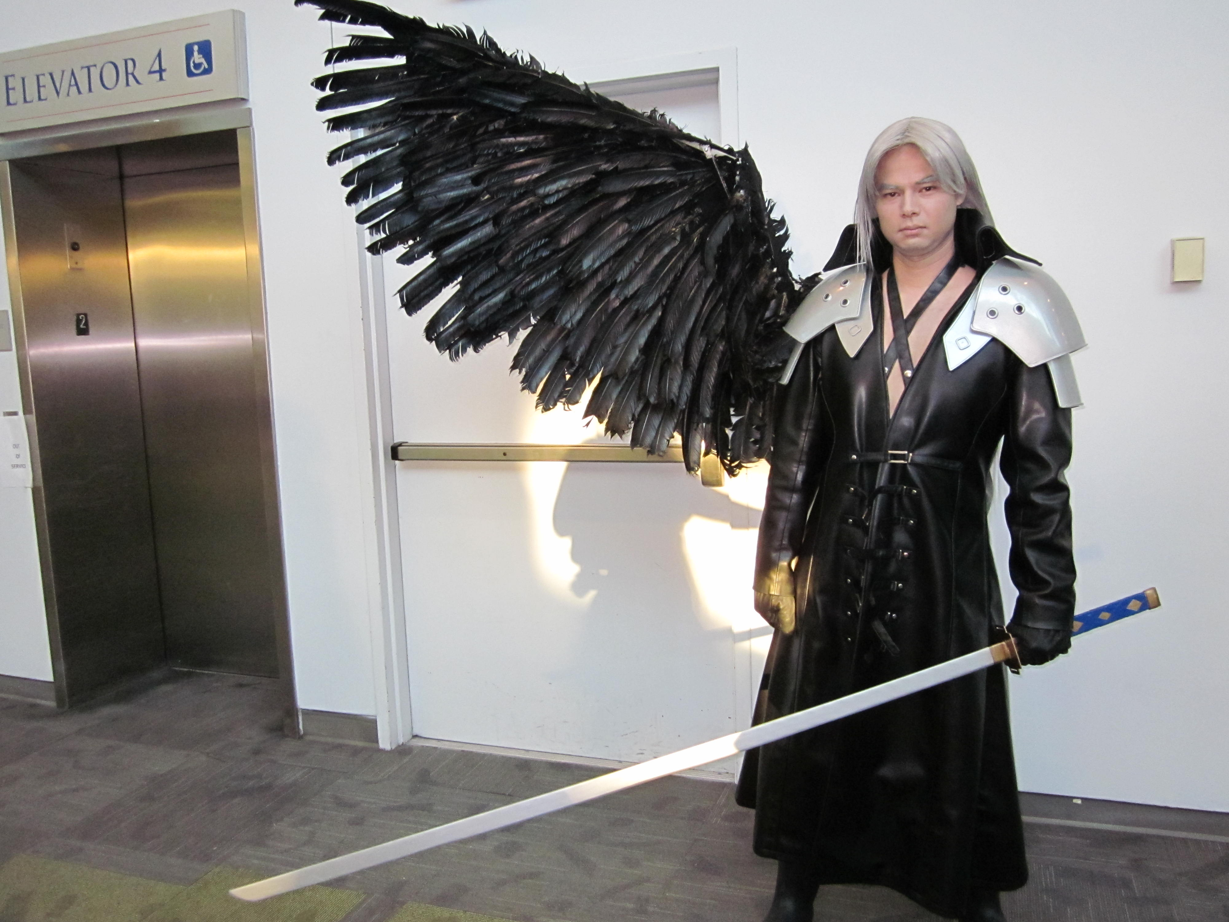 A cosplayer portraying Sephiroth from Final Fantsy VII at FanimeCon 2010 in San Jose, California.